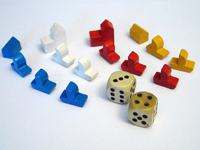 some tiles for parlor game Settlers of Catan.